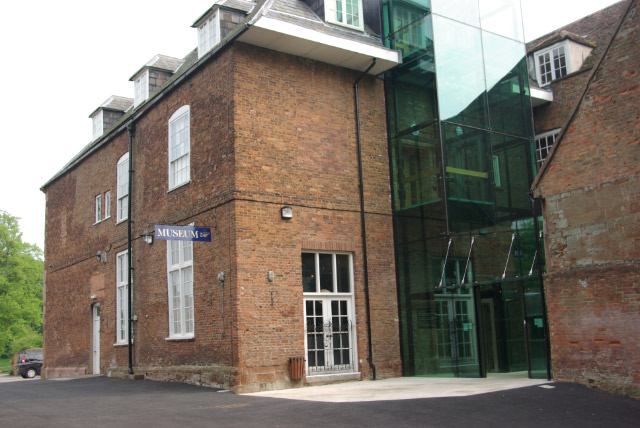 Hartlebury Castle The north wing (seen here) houses the Worcestershire County Museum, whereas the south wing continues the traditional role of this house as the official residence of the Bishop of Worcester.